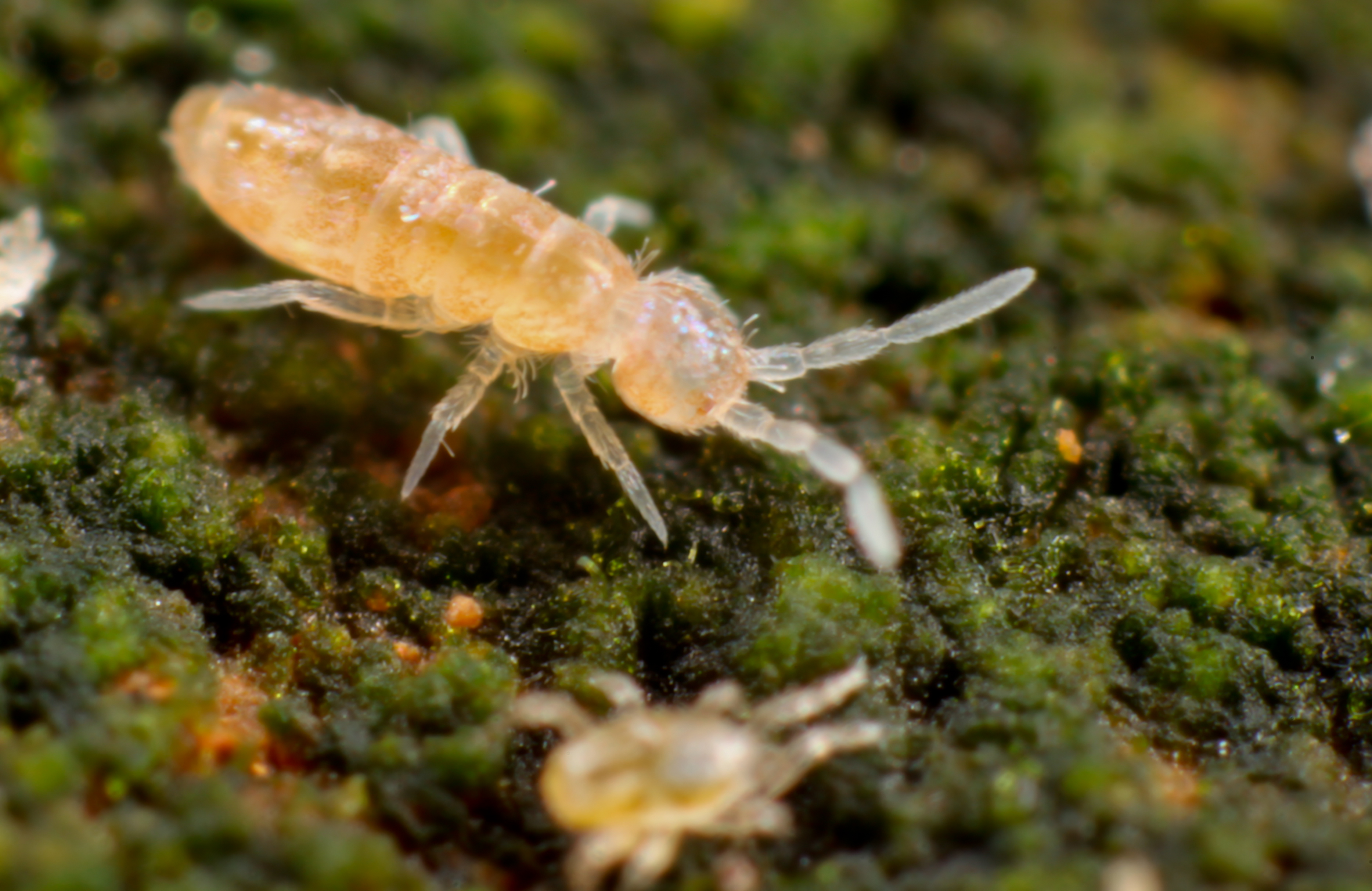 Heteromurus nitidus from England.